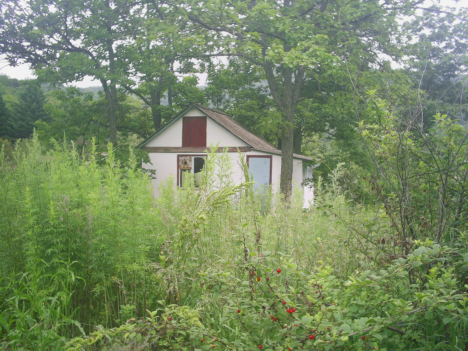 Garden House (Dacha) in Southern Primorsky Krai